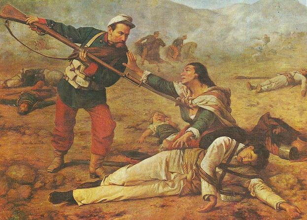 Aftermath of the Battle of Huamachuco (1883). The battle was fought between forces from Chile and Peru. The "repase" was the practice of ensuring the death of the enemy by stabbing fallen opponents with bayonets; it also included the killing of wounded soldiers in the battlefield. The image depicts a Chilean soldier about to conduct a "repase" while a rabona, the fallen soldier's aide (probably his wife), attempts to stop him.